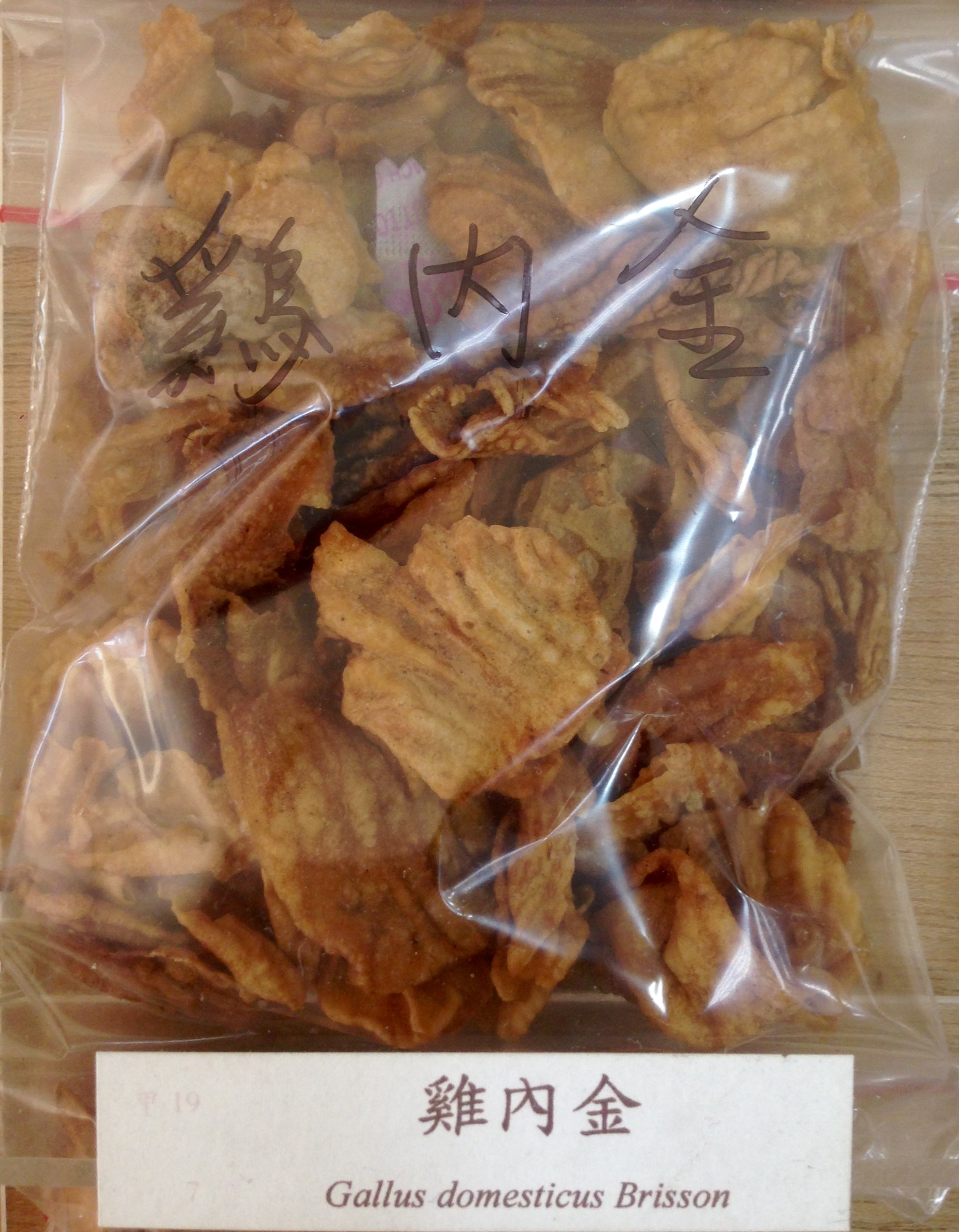 Jineijin